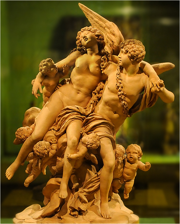 Cupid and Psyche French (Paris), late 18th or early 19th century Terracotta Signed by Claude Michel, called Clodion (1738-1814 Claude Michel, known as Clodion, was French but lived in Rome between 1762 and 1771. There he studied classical Roman sculpture, as well as the work of Michelangelo and Bernini. He was famous for small-scale terracotta groups, often made for private collectors. This work is thought to date from the late 1790s and be one of a group made by Clodion to re-establish his position after the Revolution and intended for returning emigr� families. Cupid is here represented as a young man with outstretched wings, conveying the swooning Psyche through the clouds, surrounded by 'amorini' or little winged putti (which are characteristic of Clodion's work). The story of Cupid and Psyche was by the 2nd century AD writer, Lucius Apuleius, in his 'Metamorphoses' (also known as 'The Golden Ass'). The widespread attention given to Psyche, the (mortal) daughter of a King and Queen, for her exceptional beauty, angers the goddess Venus greatly. She despatches her son, Cupid, to make her fall in love with a monstrous creature, but instead he falls in love with her himself. This group demonstrates Clodion's skill in not only successfully combining and intertwining a variety of elements in a very tight composition, but also in his vigorous working and tooling of the clay to create texture which contrasts with smooth skin adjacent. This is possibly the group of the Abduction of Psyche which was amongst the effects of Clodion at the time of his death. Given by Sir Chester Barry, FSA Collection ID: A.23-1958 This photo was taken as part of Britain Loves Wikipedia in February 2010 by Barry Green.